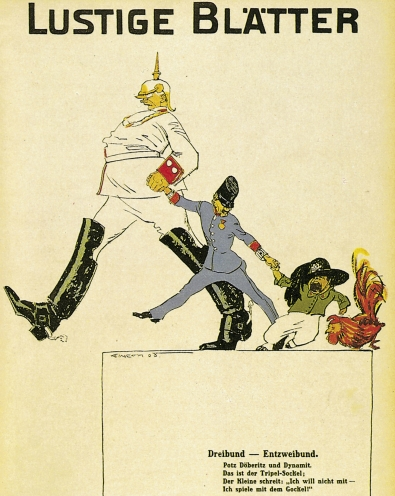 Cartoon of the Berlin newspaper "Lustige Blätter." In the Triple Alliance Germany drags the Austrian boy while the Italian child throws a tantrum to stay with the French cockerel.